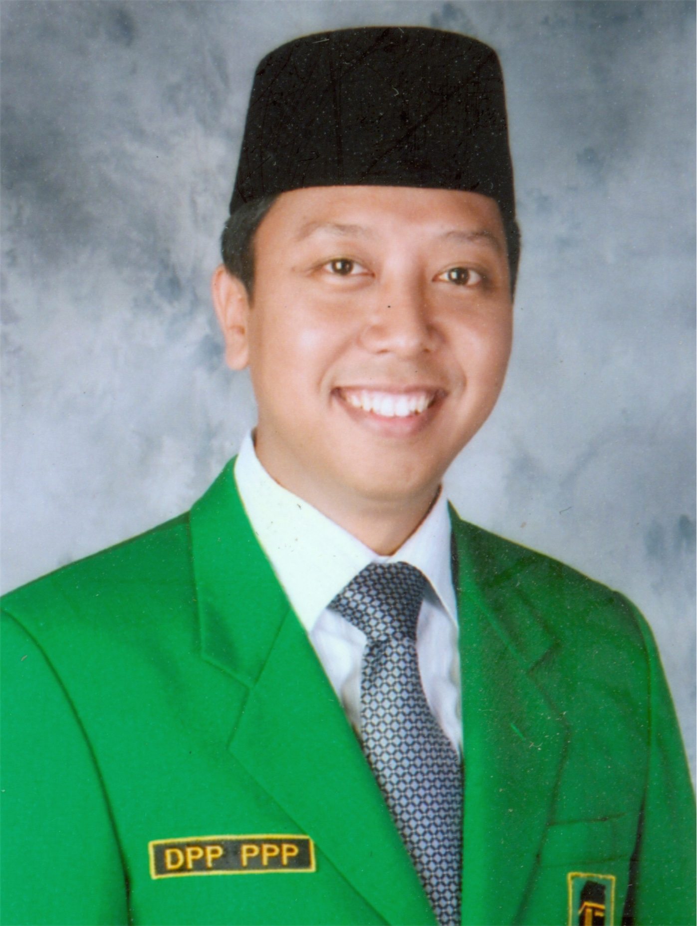 Muhammad Romahurmuziy as a member of the PPP faction in the People's Consultative Assembly